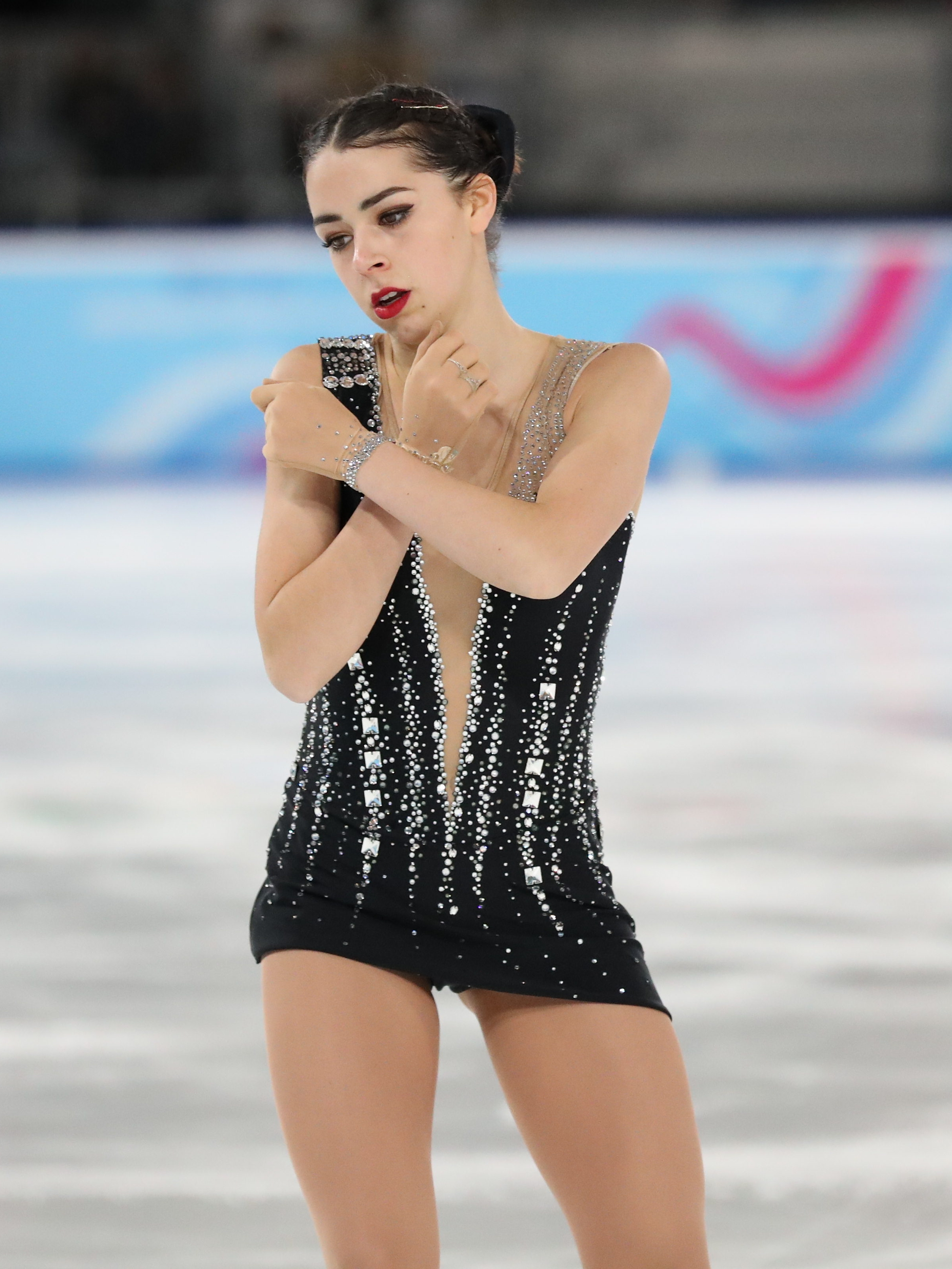 Women Single Figure Skating Short Program at the 2020 Winter Youth Olympics in Lausanne